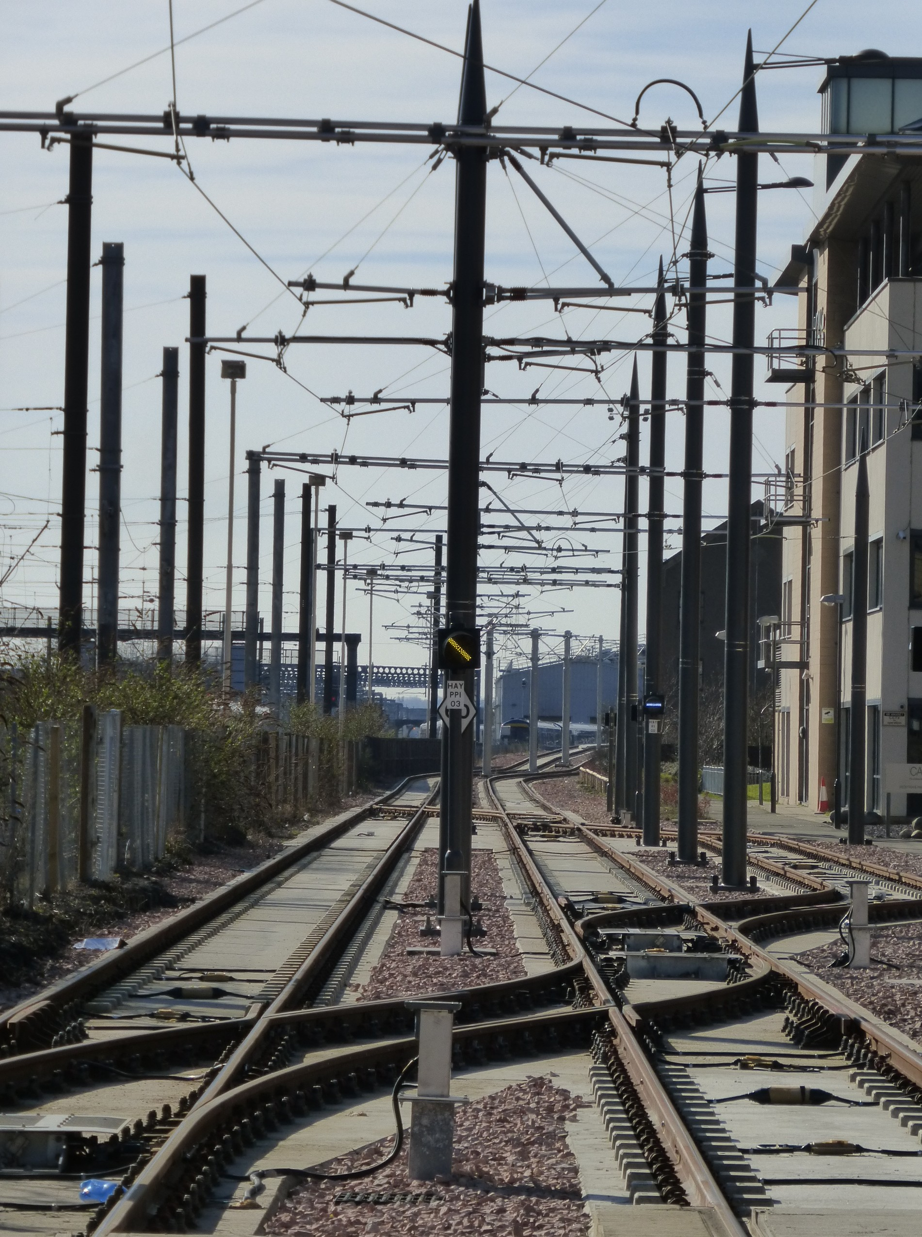 The view west along the Haymarket Yards siding on the Edinburgh Trams system. At this stage the system was in the final few months of testing. This is the first part of the permanent way section, and is the location of the only siding on the main line. The siding itself is connected to the eastbound track (on the right), but the single crossovers beyond either end of it, both of which are visible in this shot, mean it's also usable by westbound trams. The two signals in view are for the points which connect the siding to the eastbound track - the nearest is showing 'turn left', the furthest is showing 'stop', which indicates that the set path is the main line.